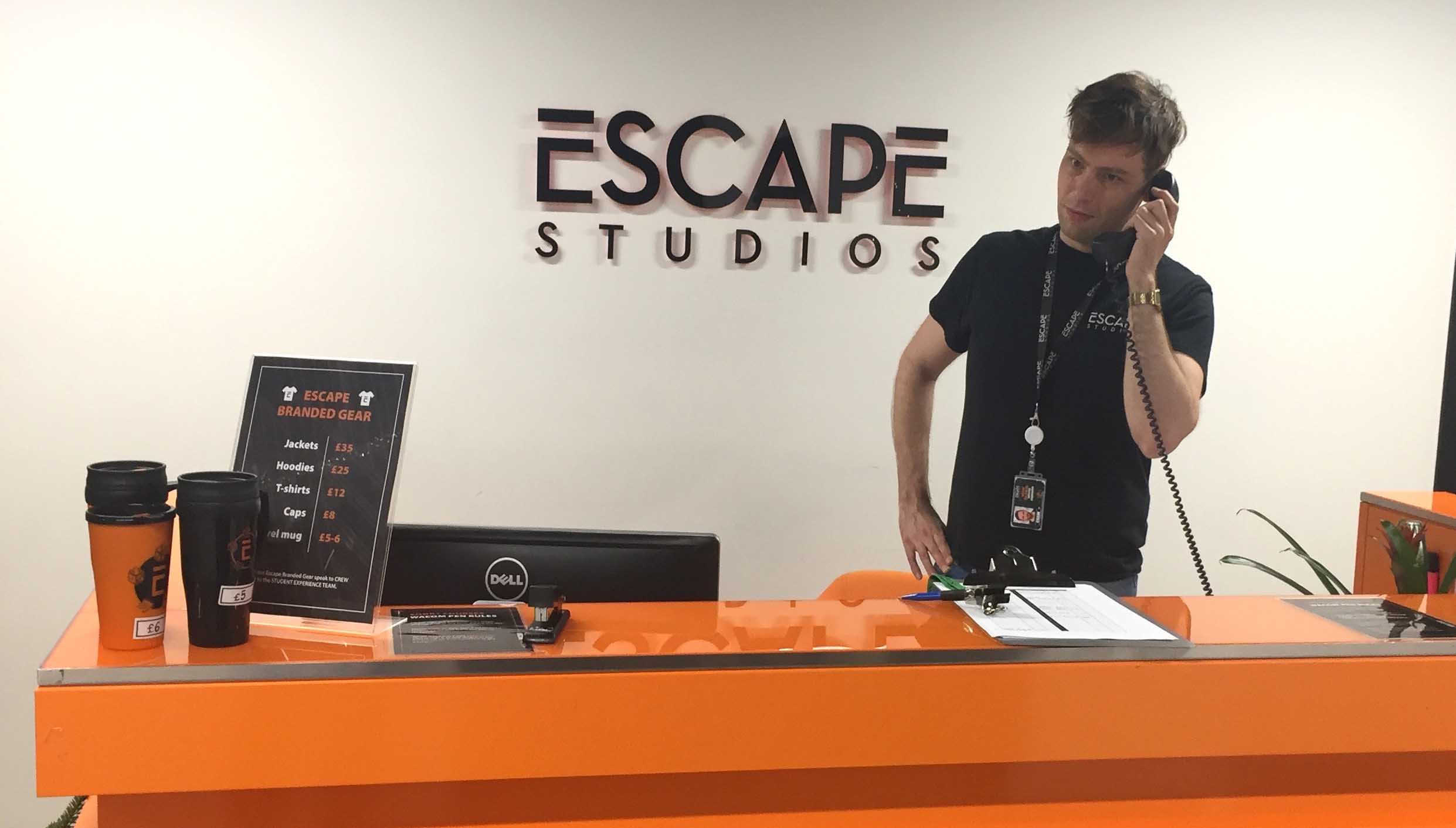 Front Desk at Escape Studios, 190 High Holborn, London WC1